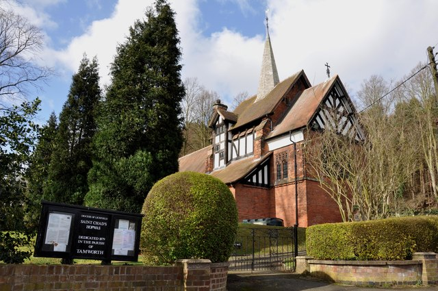 Photograph of St Chad's Church, Hopwas, Staffordshire, England